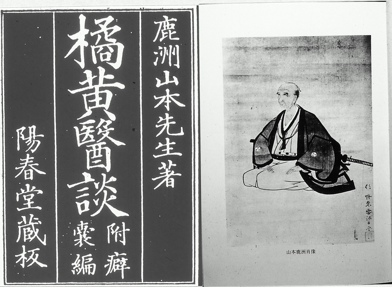 The cover of Kitsuo-Idan [Medical records of my private hospital under the big orange tree] written by Rokushu Yamamoto (left) R. Yamamoto (1770–1841) (right)